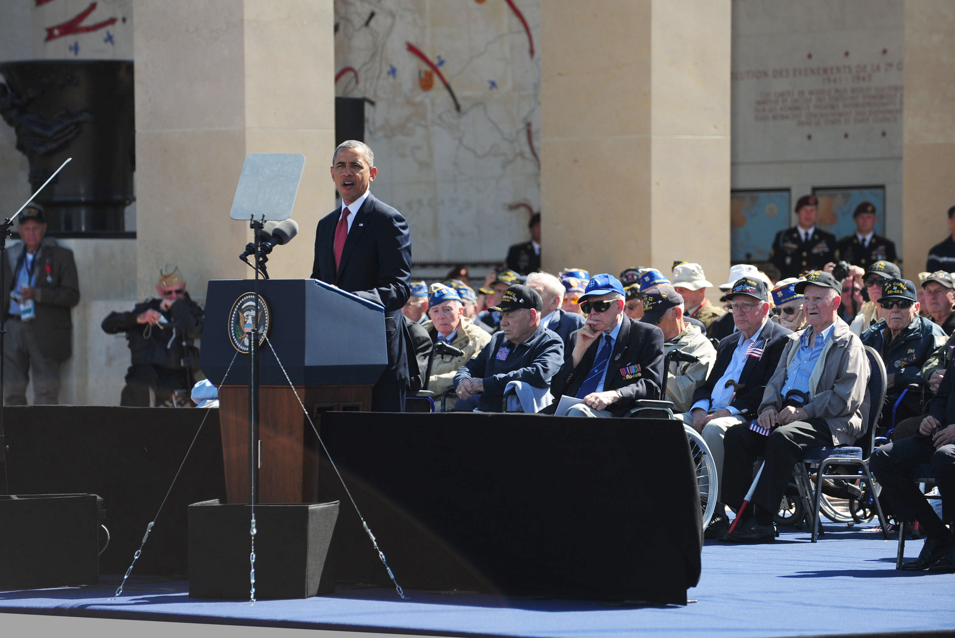 COLLEVILLE-SUR-MER, France -- President Barack Obama speaks today to approximately 10,000 attendees at the Normandy American Cemetery and Memorial here June 6, commemorating the memory of the fallen Soldiers who gave their lives 70 years ago fighting to end the Nazi reign over Europe. During the ceremony approximately 400 WWII veterans sat behind the Presidents and faced the crowd while listening to the speeches, almost all reacting with standing applause and emotion now sitting safely seven decades later only miles from where they fought for their lives. The event was one of several commemorations of the 70th Anniversary of D-Day operations conducted by the Allies during WWII, June 6, 1944. Task Force Normandy, led by the 173rd Airborne Brigade out of Vicenza, Italy, has organized 650 personnel from twenty U.S. units and six nations, at the invitation of the French government, to participate in the events happening across the region of Normandy. For more information on the events and the history of the operations conducted here, go to . (U.S. Army photo by Sgt. Daniel Cole)